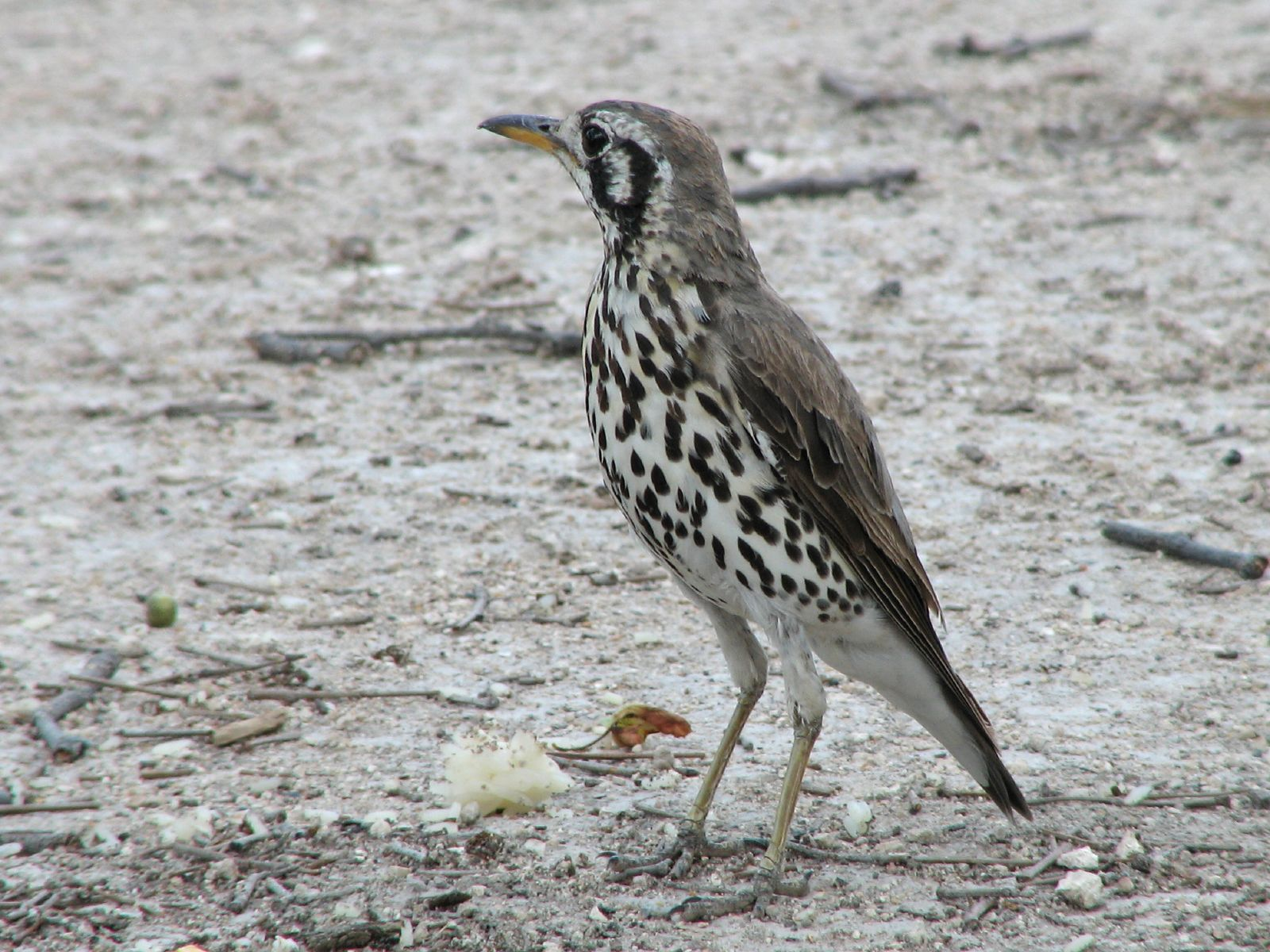 Groundscraper Thrush (Psophocichla litsipsirupa )